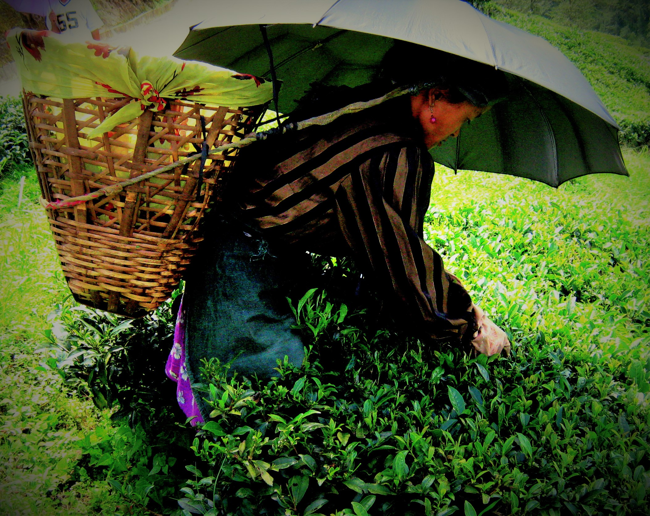 The tea leaves being plucked.